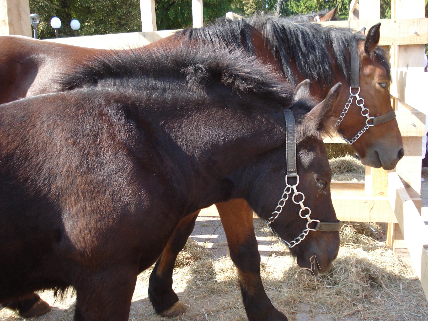 Međimurski konj (Međimurec) = horse breed of Medjimurje, northern Croatia, at an exhibition in Čakovec on September 24th, 2011 - dark brown mare and its foalHrvatski: Međimurski konj (Međimurec) = pasmina iz Međimurja, sjeverna Hrvatska, na izložbi u Čakovcu 24. rujna 2011. - dorat, kobila i ždrijebe